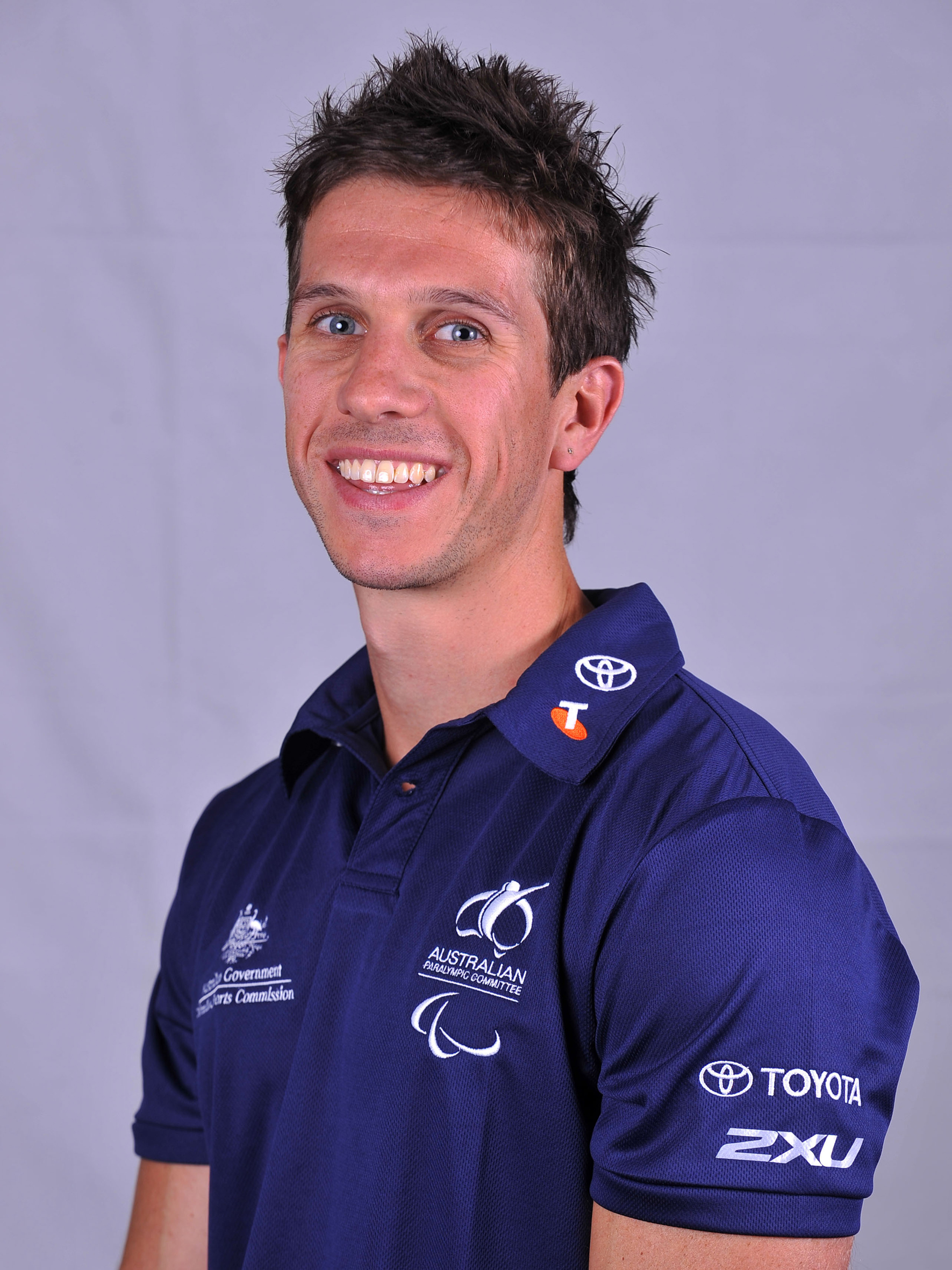 Portrait of Australian athlete Jack Swift, 2012 Australian Paralympic (shadow) Team athlete